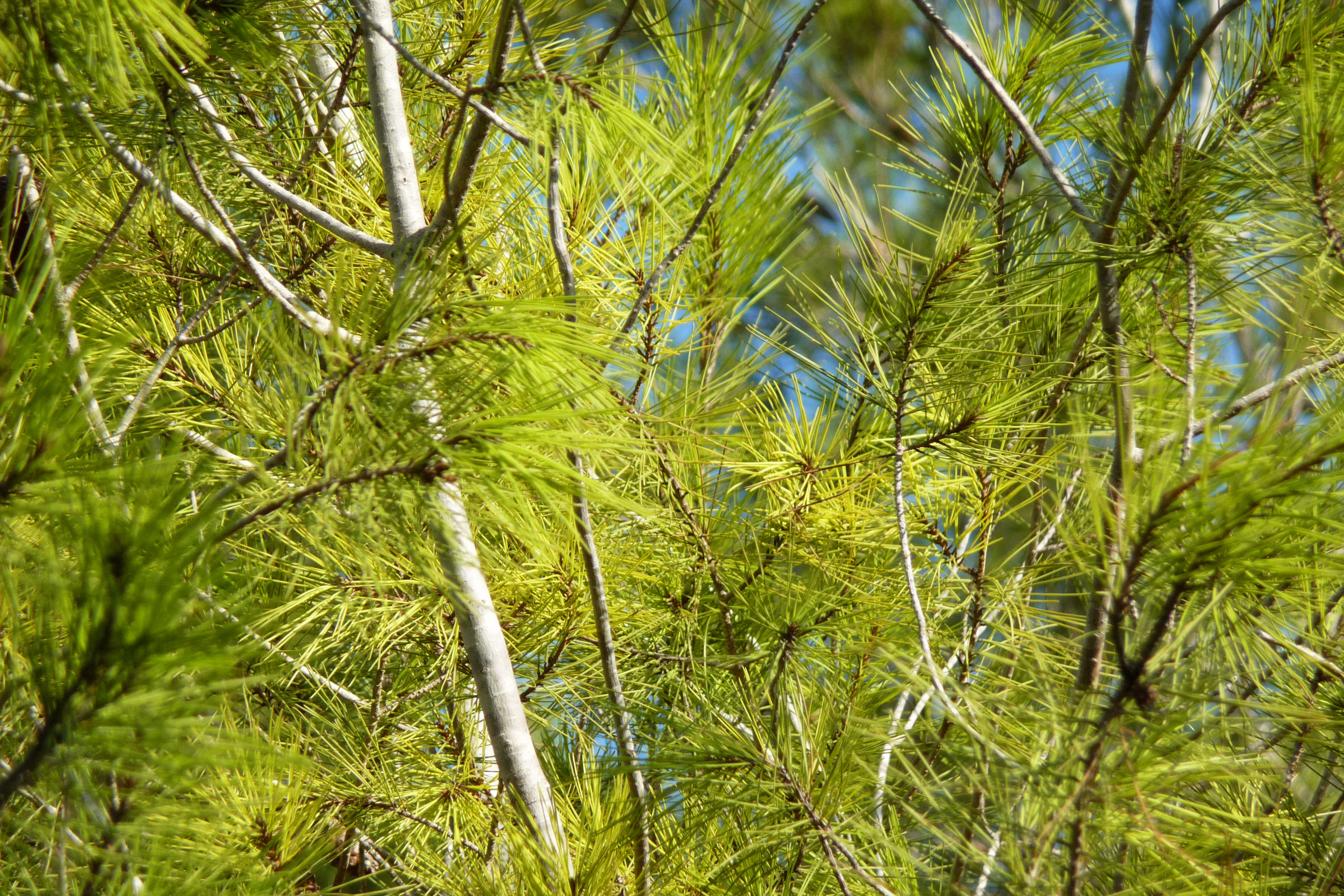 IBet Oren